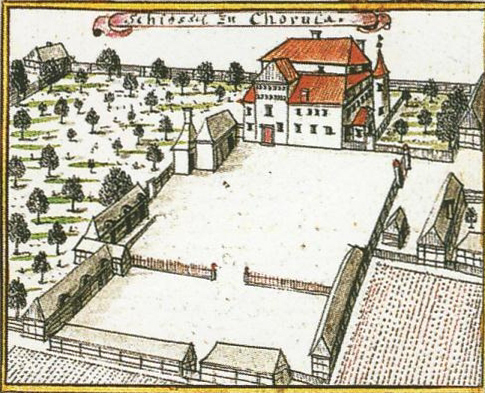 Dominium Chorula in the ownership of family von Larisch (18th century)